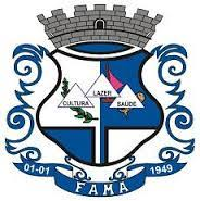 Coat of arms of the city of Fama, Minas Gerais, Brazil.